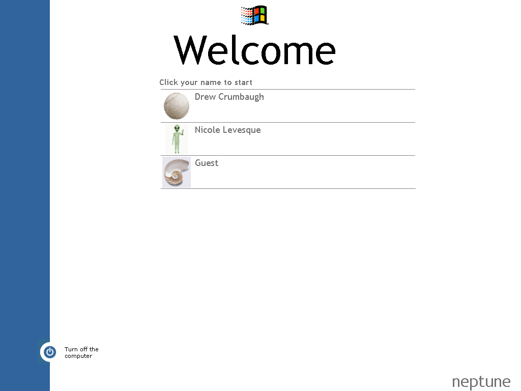 Windows Neptune showing the login screen.